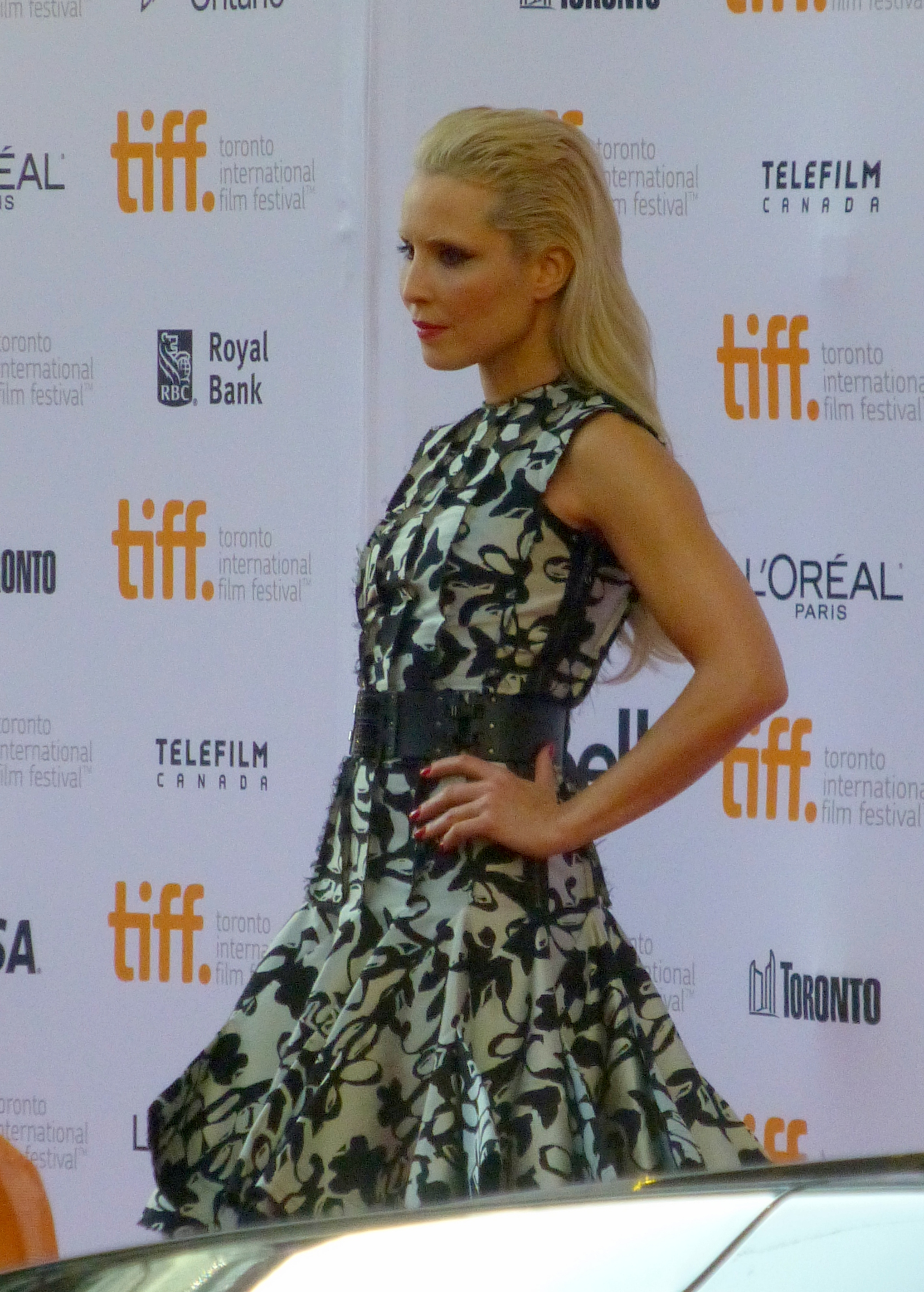 Noomi Rapace at the premiere of The Drop, 2014 Toronto Film Festival